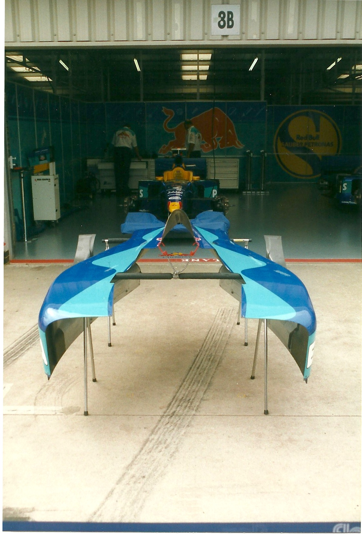 Stand Sauber at the 1998 British Grand Prix